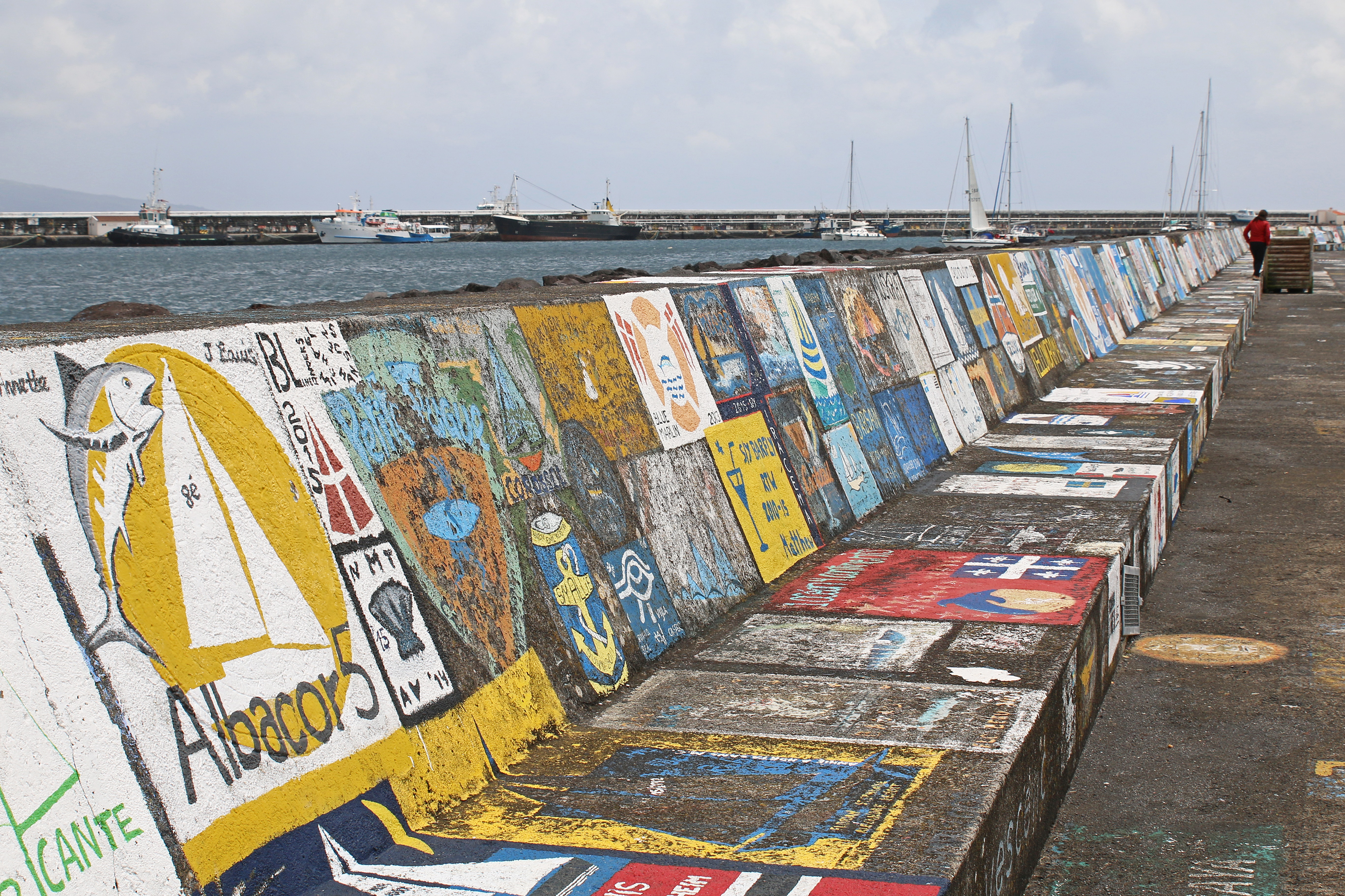 Harbour mole of Horta, island Faial (Azores). The paintings are made by sailors as a memory for crossing the Atlantic.